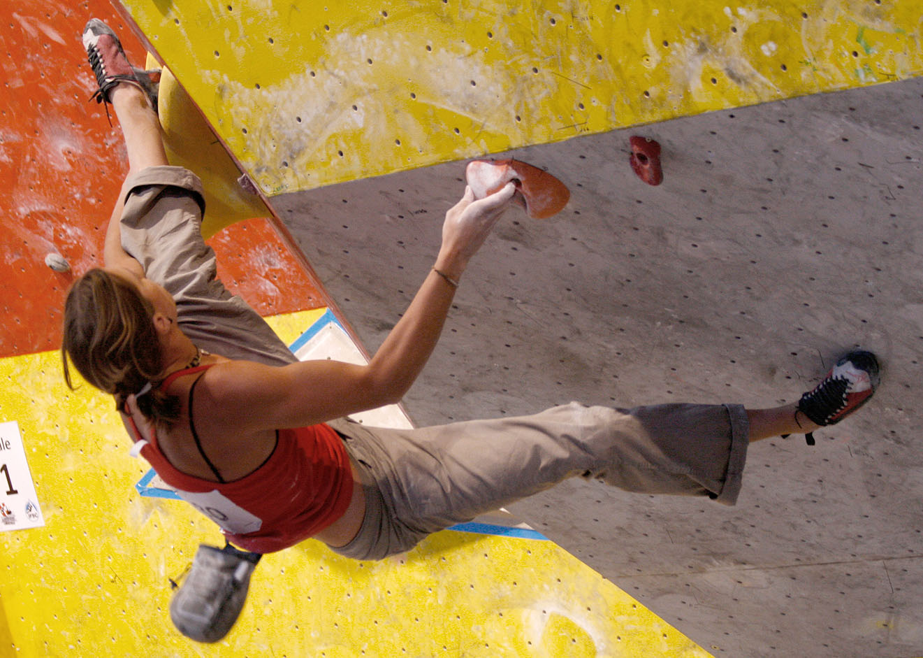 Chloé Graftiaux during the finals at the IFSC Boulder Worldcup Vienna 2010.